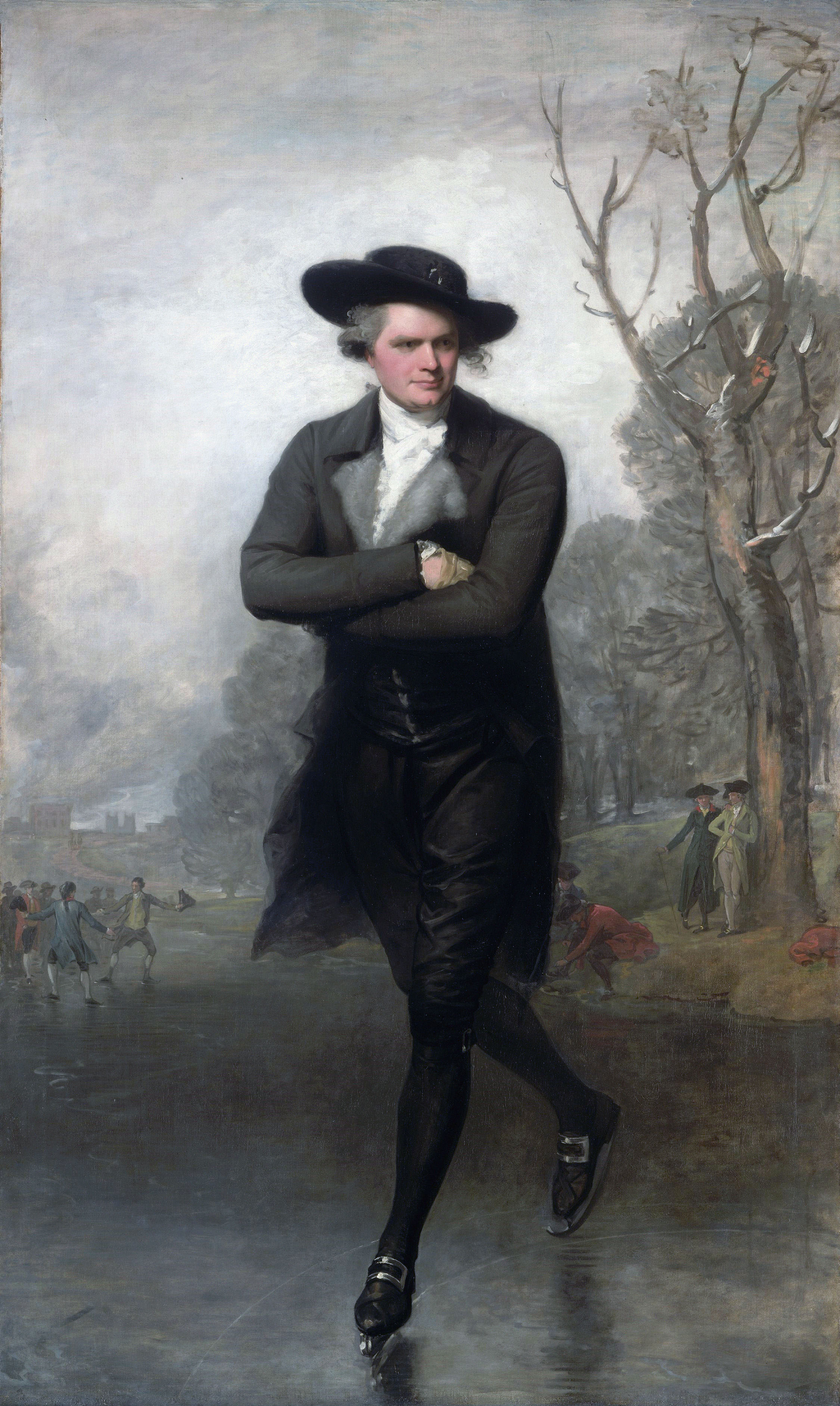 The Skater (Portrait of William Grant) [National Gallery of Art, Washington, D. C., online collection museum webpage] William Grant